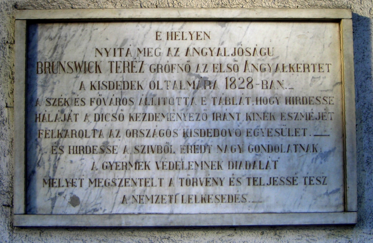 Commemorative plaque of Angyalkert (Angel's Garden) of Teréz Brunszvik in Budapest District I, Attila Street No 81 (at the Mikó Street)